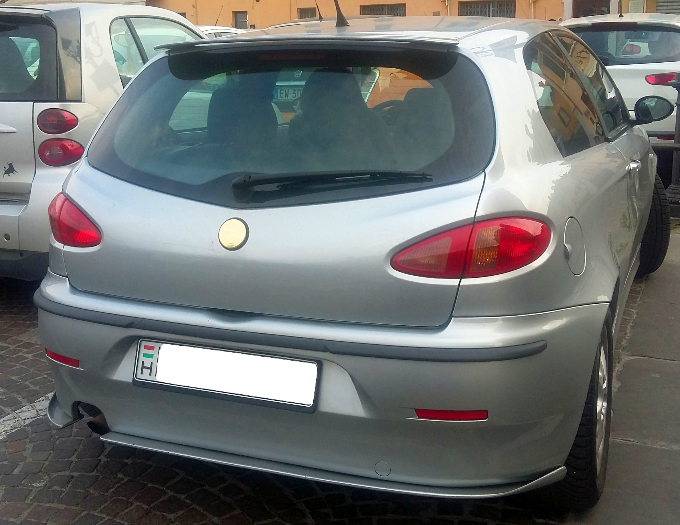 2000-2010 Alfa Romeo 147, rear (pre 2008 facelift)